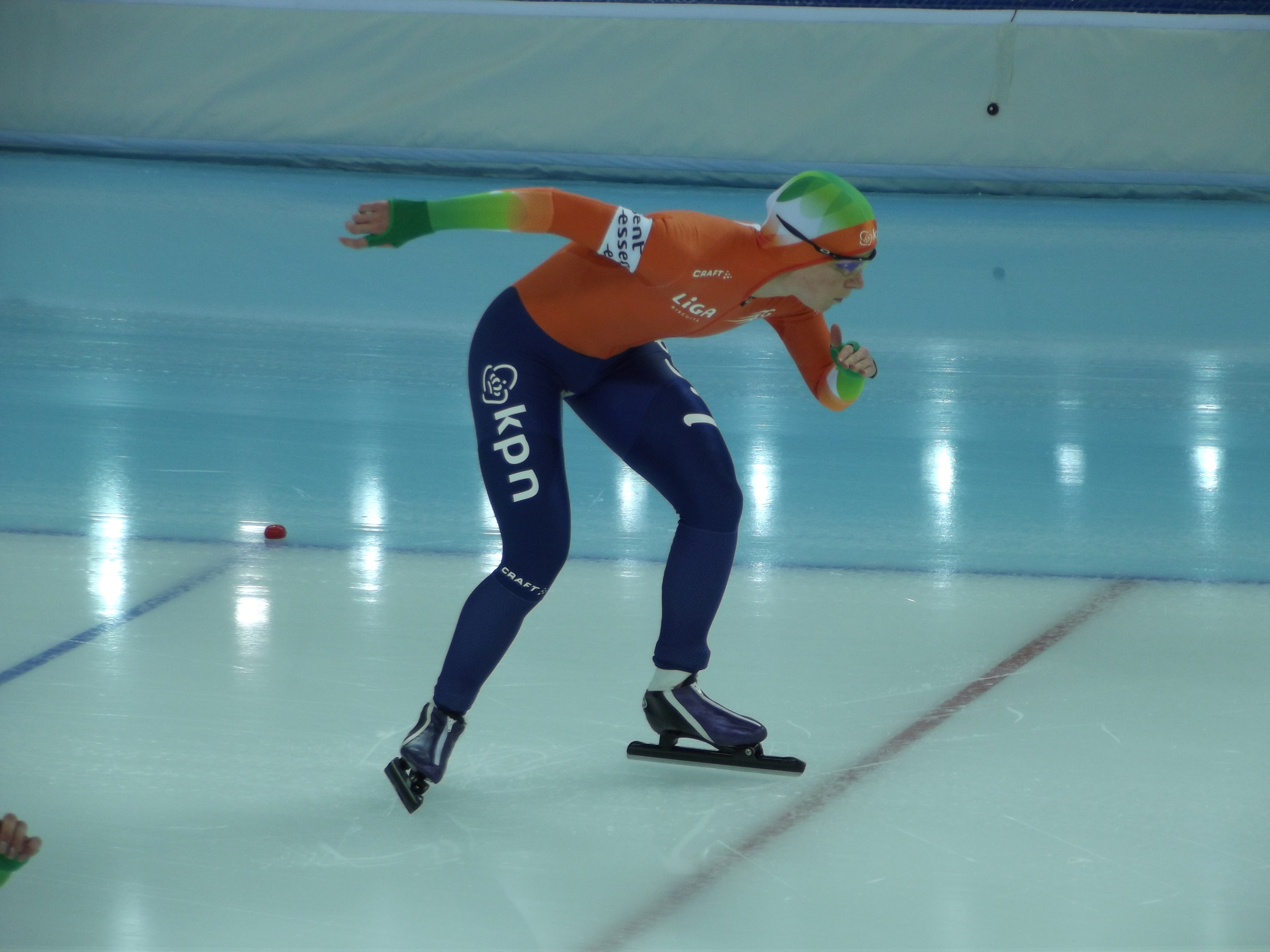 2013 World Single Distance Speed Skating Championships